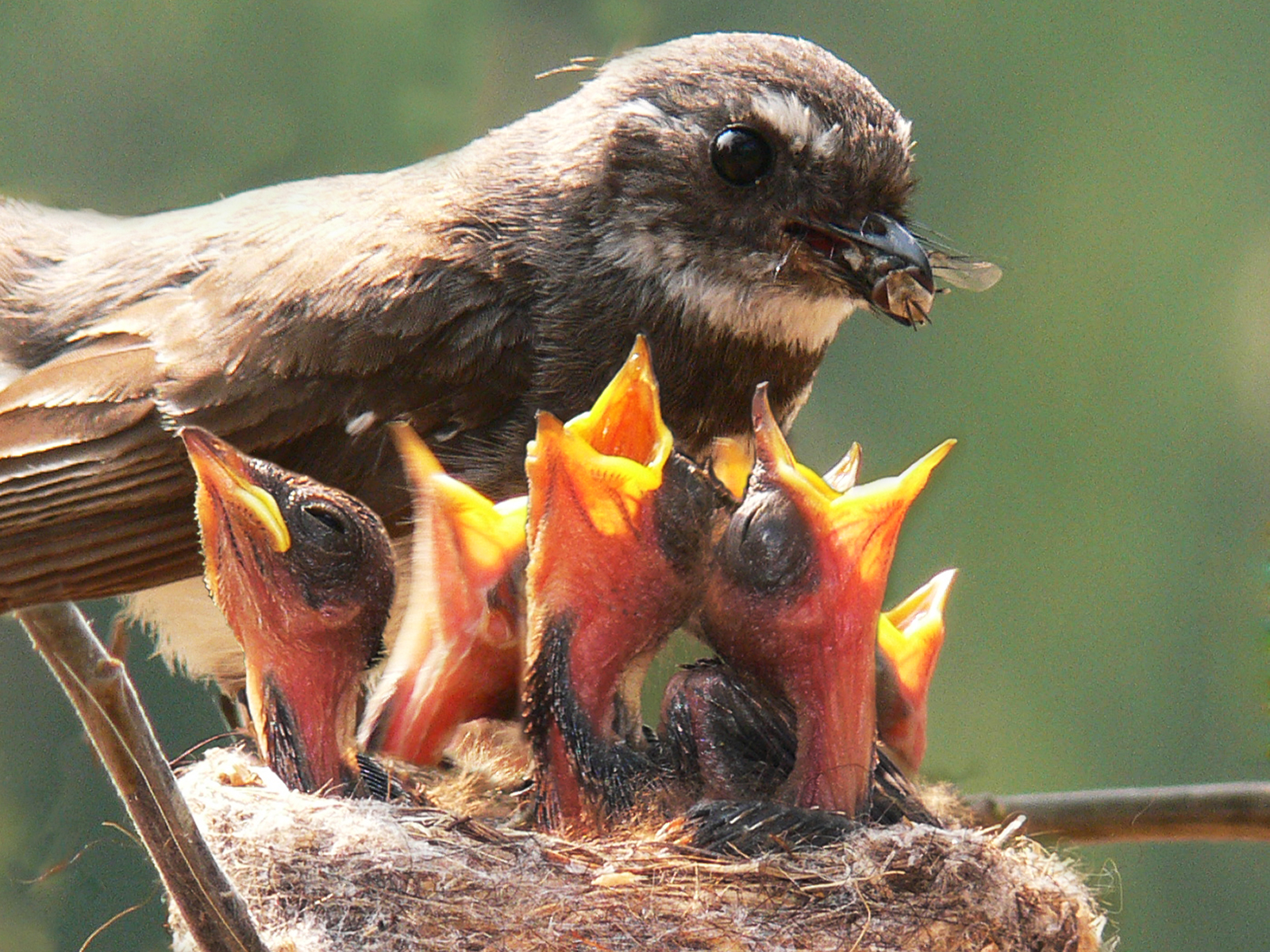 An Australian grey fantail Rhipidura albiscapa feeding her hungry brood Taken in Ensay, Victoria